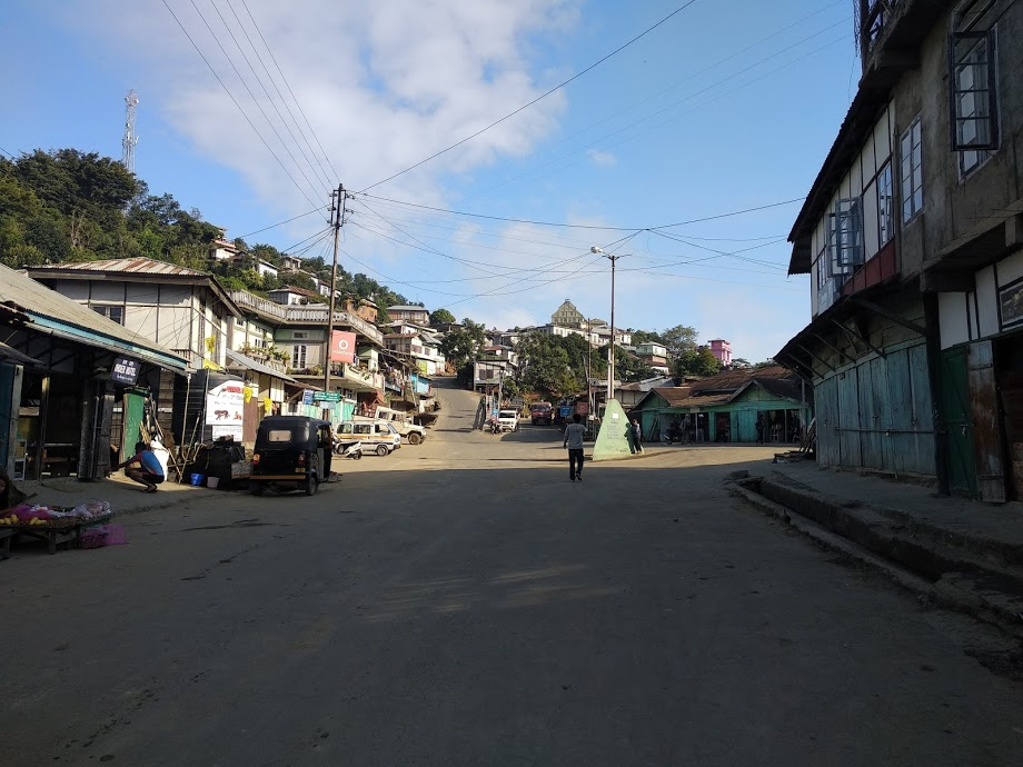 Ngopa Kawn